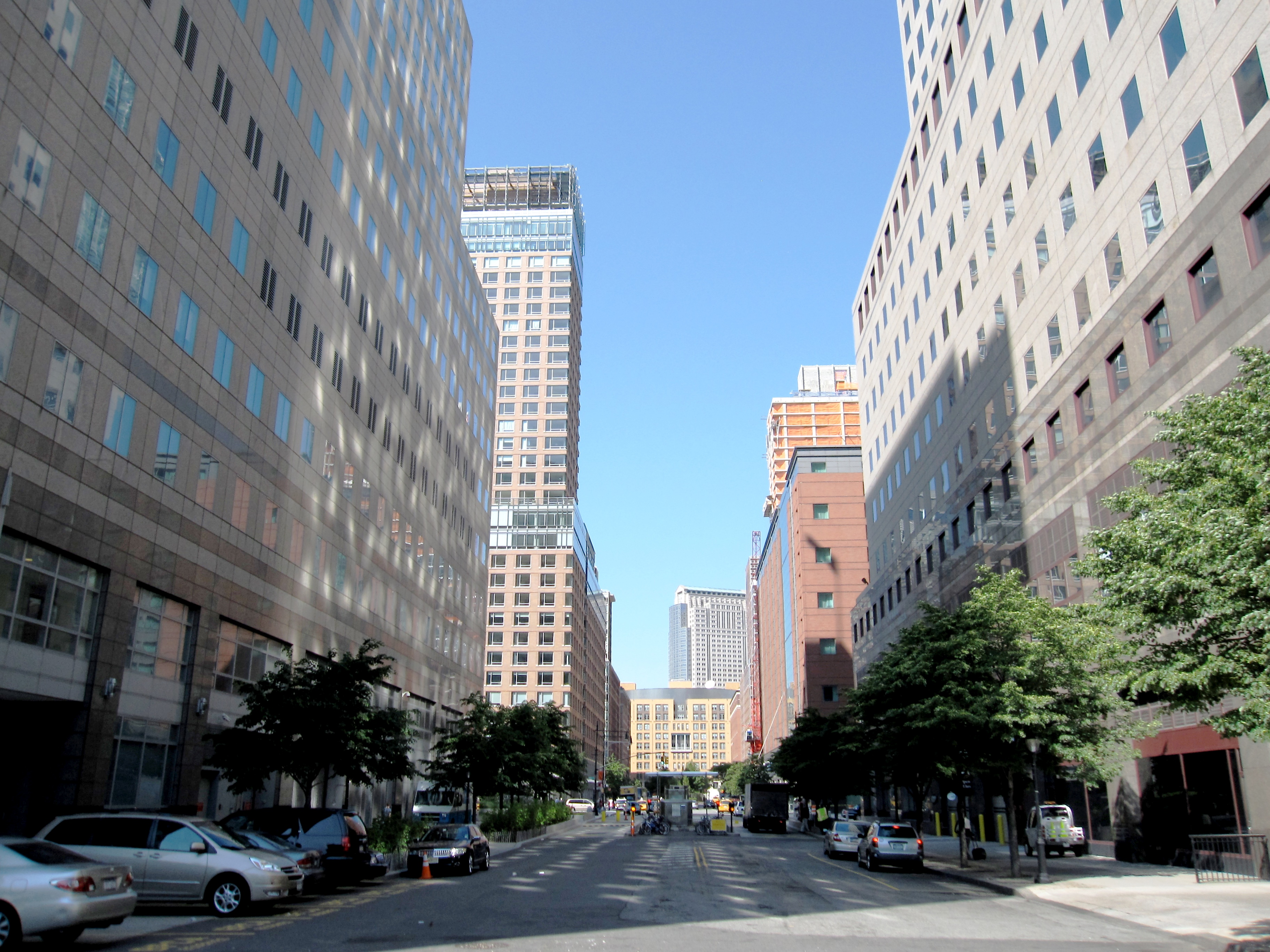 North End Avenue and Vesey Street looking north at Battery Park City